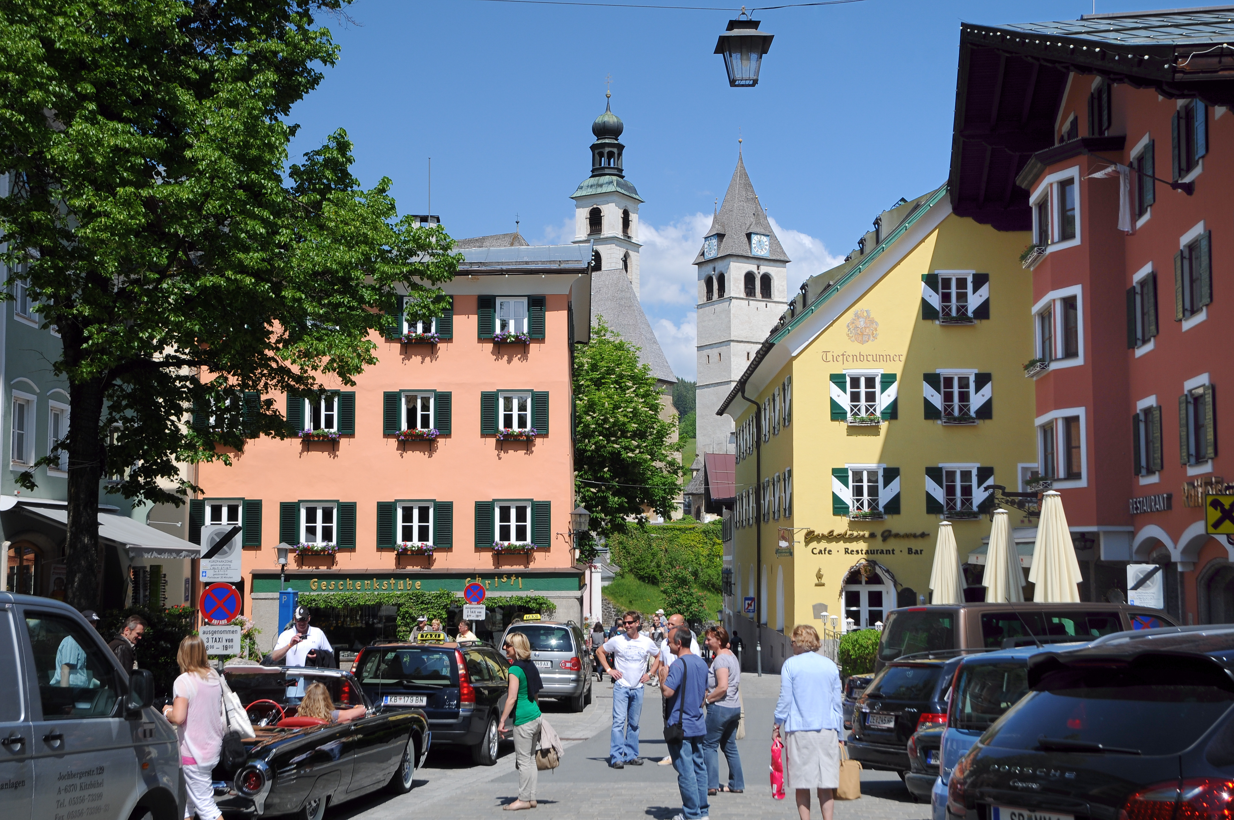 Kitzbühel, west side of Josef-Pirchl-Straße with St Andrew's Parish Church and Church of Our Lady (from l. to r.).